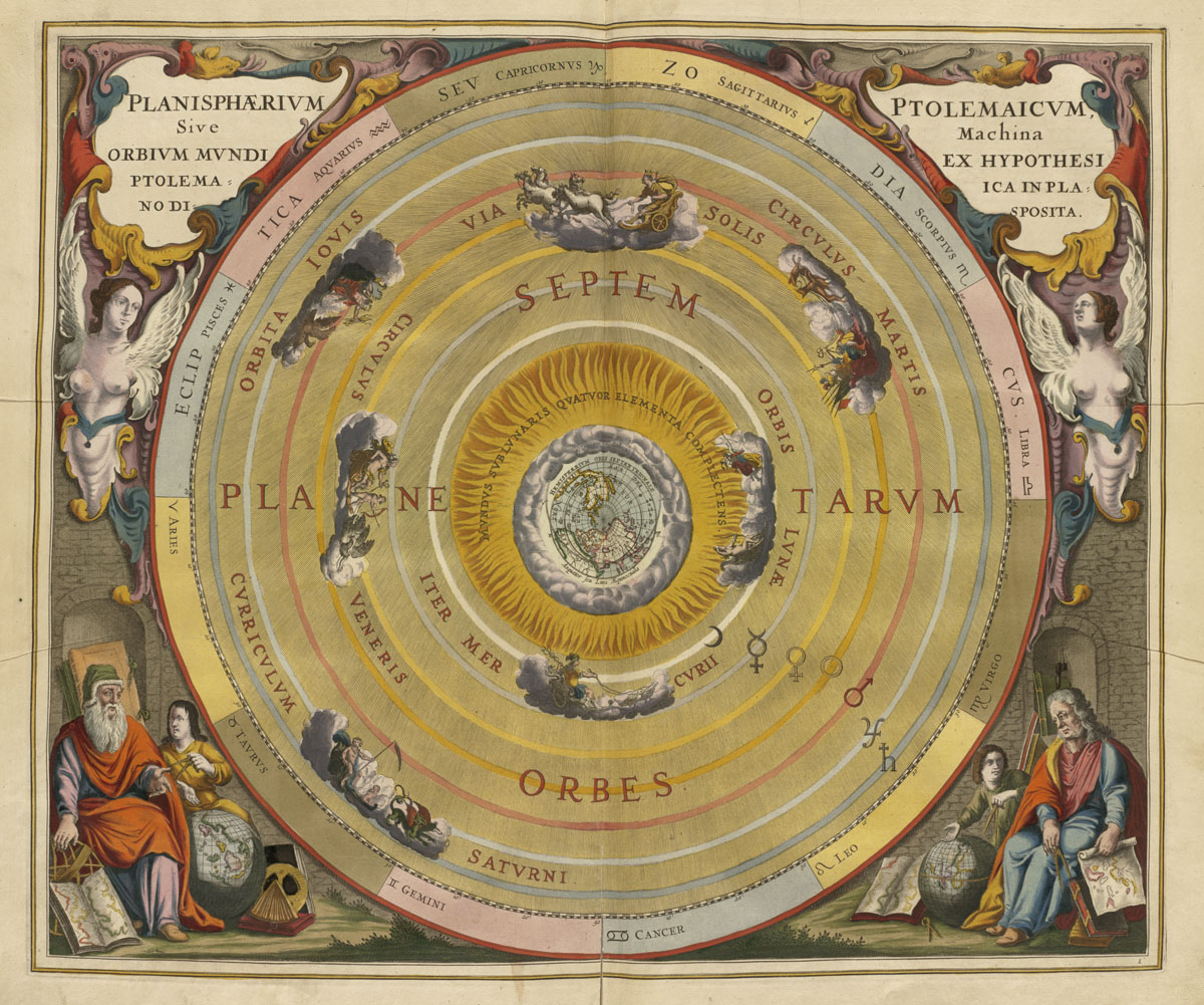 Zoom into this map at . Author: Cellarius, Andreas. Publisher: [s.n.] Date: 1661. Location: Solar system Scale: Scale not given. Call Number: G3180 1661.C4 While most of the maps in this exhibit depict just the Earth -- reflecting mankind's perception of his immediate and perceived environment -- very few address the planet's position in the larger universe. However, geographers, astronomers, and map makers during the Renaissance and Baroque periods were very interested in observing and mapping the heavenly bodies and theorizing about their relationship to the Earth. In the mid-17th century, Andreas Cellarius, a Dutch mathematician and geographer, compiled a lavish celestial atlas. This comprehensive book brought together numerous charts and a wealth of astronomical information from various sources. The initial chapters described the theories of several astronomers including Claudius Ptolemy, Nicolaus Copernicus, and Tycho Brahe. The later chapters discussed such subjects as the magnitudes of the stars, lunar and solar theories, the nature of the planets, and the constellations of the zodiac. These topics were illustrated with beautifully engraved and hand colored plates. One illustration included in Cellarius' book is this plate depicting the Earth-centered universe theorized by Claudius Ptolemy, the 2nd century A.D. geographer who lived in Alexandria, Egypt. At the center of this diagram, there is a small map of the Earth's northern hemisphere. Revolving around the Earth in separate orbits are the Moon, Mercury, Venus, the Sun, Mars, Jupiter, and Saturn. The outer circle was reserved for the stars, represented as the constellations of the zodiac. This was the prevailing theory of the universe until the mid-16th century when Copernicus proposed a solar system centered on the Sun.